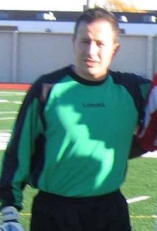 George Azcurra in 2005